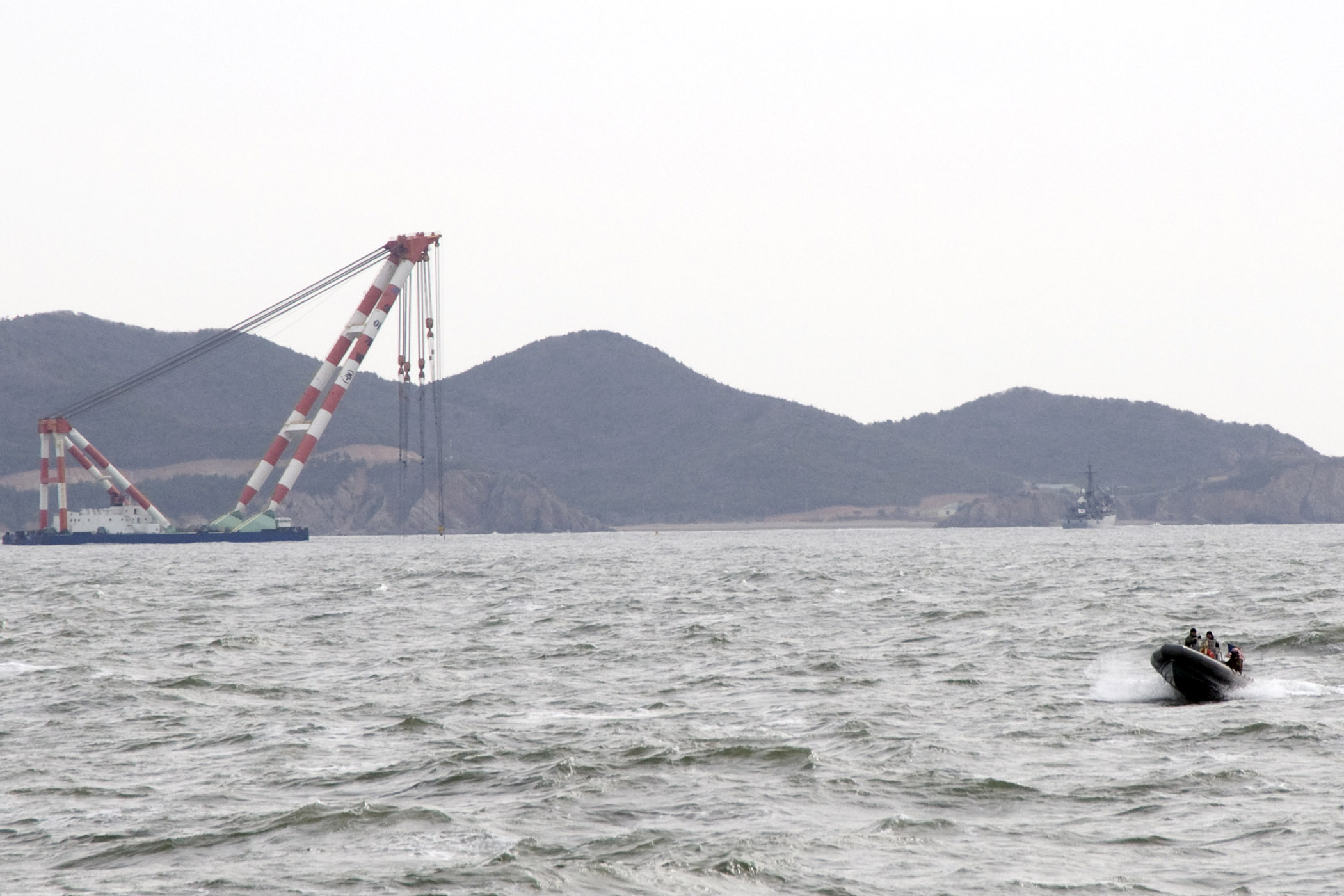 YELLOW SEA (April 14, 2010) Explosive Ordnance Disposal Mobile Unit 5 Platoon 501 personnel in a rigid hull inflatable boat pass a salvage crane to return to the Military Sealift Command rescue and salvage ship USNS Salvor (T-ARS 52) following a personnel transfer. U.S. Navy forces are supporting the Republic of Korea (ROK) in recovery and salvage efforts for the ROK Navy frigate Cheonan, which sank in the Yellow Sea near the western sea border with North Korea. (U.S. Navy photo by Mass Communication Specialist 2nd Class Byron C. Linder)